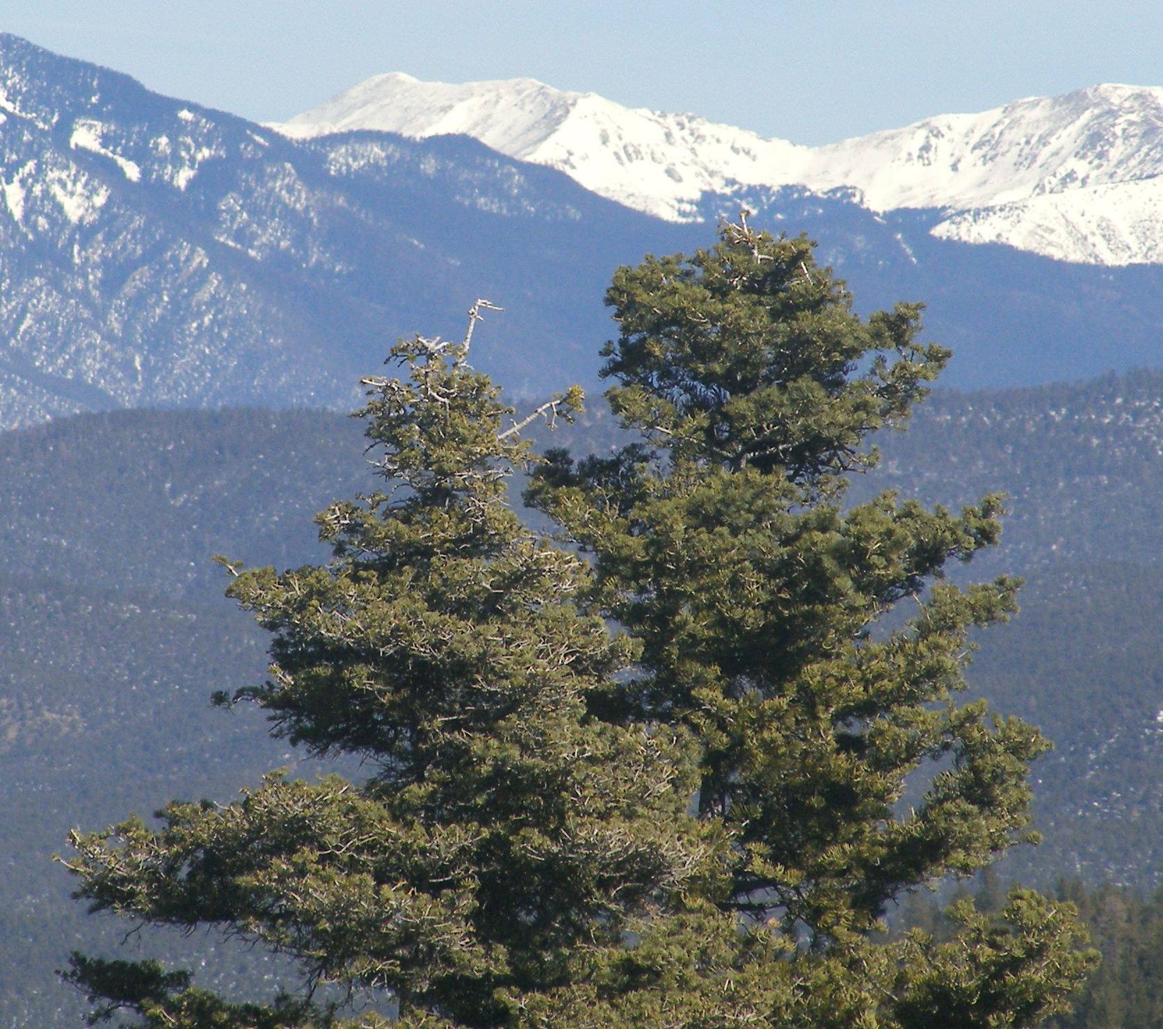 Abies concolor, top of old tree. Along NM-518 (mileposts 60-61), between Ranchos de Taos and Penasco, Carson National Forest, New Mexico.